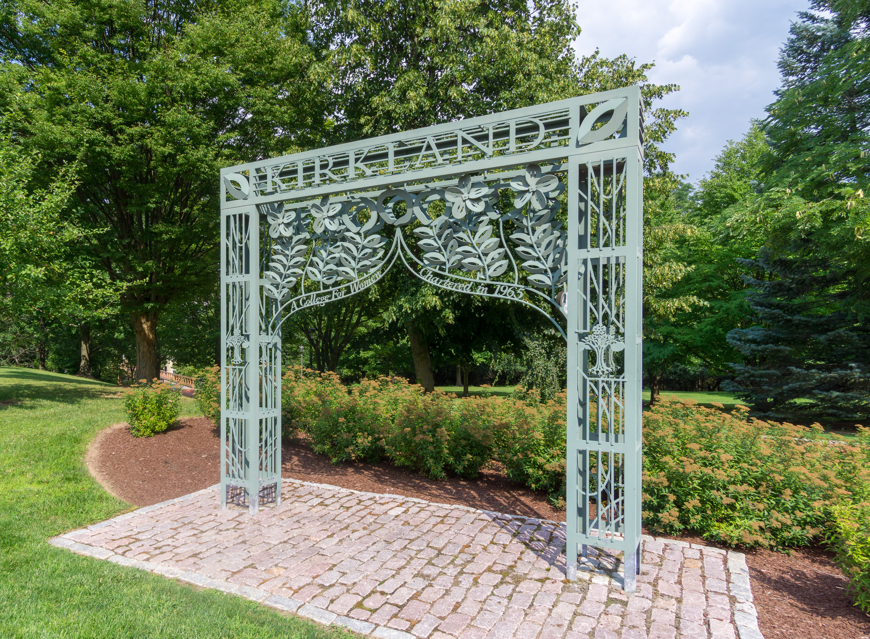 Old sign for Kirkland College, still standing at Hamilton College, New York.